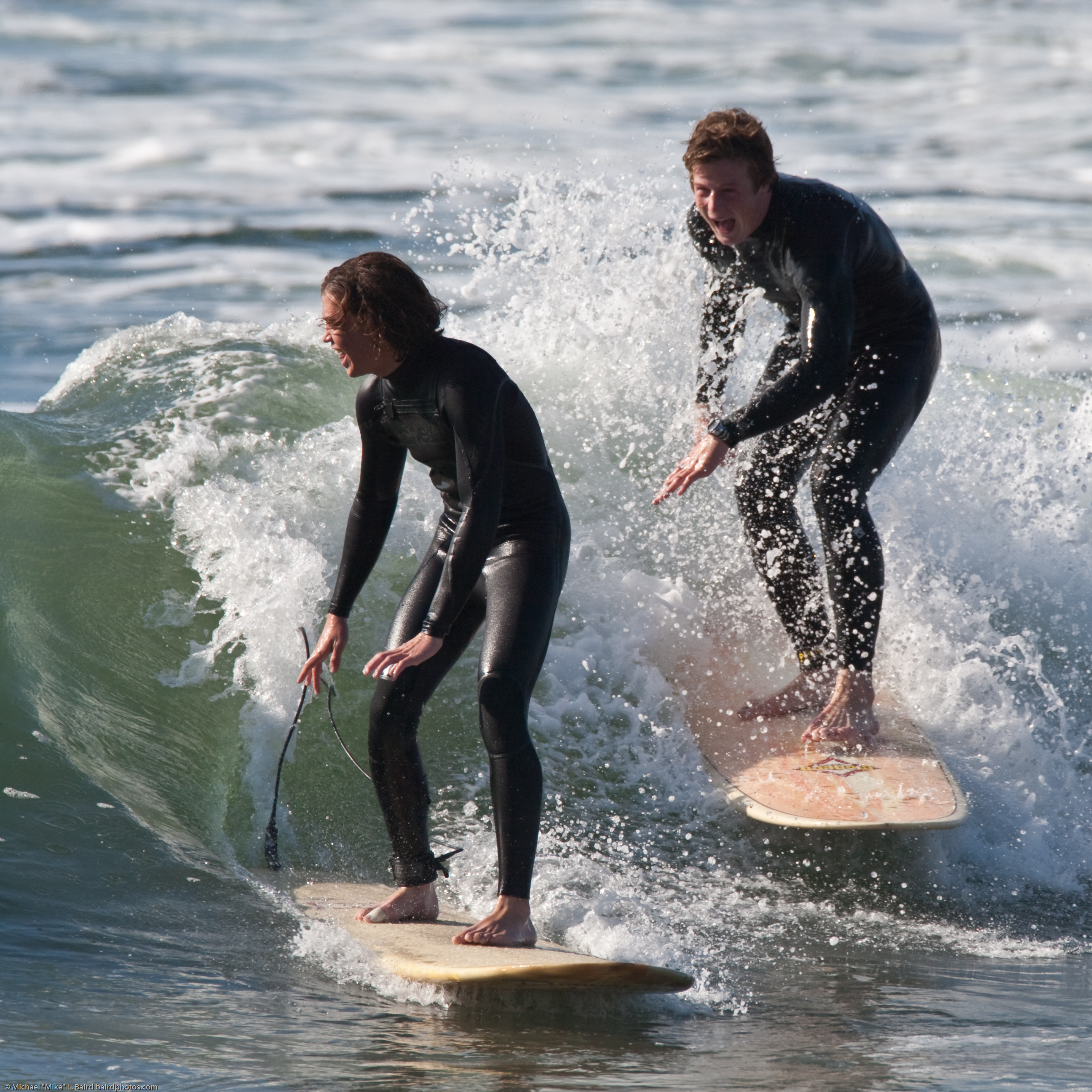 Two Surfing Teens try to see how close they can surf to each other before colliding - laughing and having the best time. People scenes, on the beach on Morro Strand State Park just north of Morro Rock in Morro Bay, CA. 23 August 2009. Photo by Michael "Mike" L. Baird, mike [at} mikebaird d o t com, ; Canon 1D Mark III, Canon 600mm f/4 IS, 1.4X TE, on sturdy leveling tripod with Wimberley head.